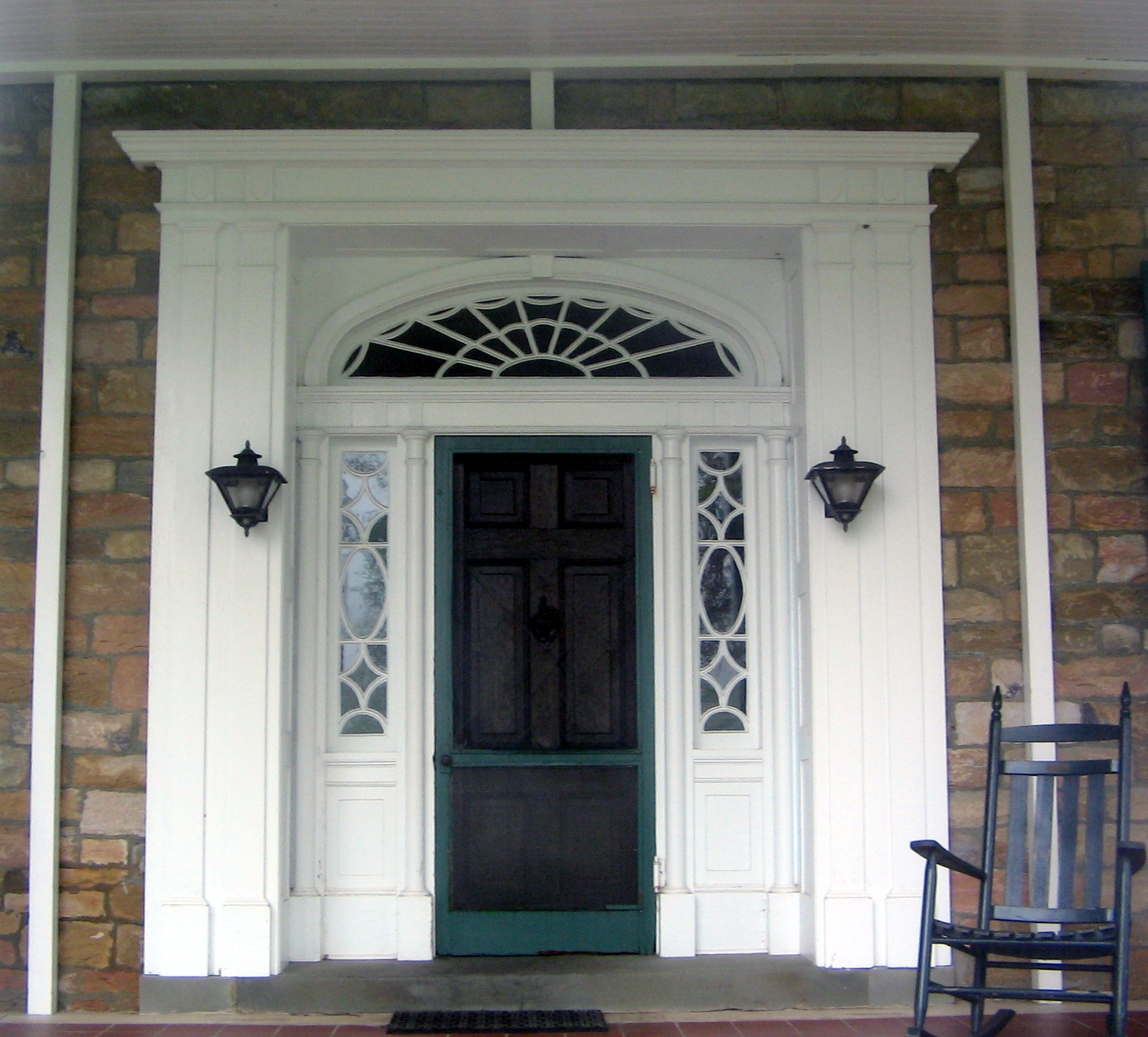 Front (west) door of the Clemuel Ricketts Mansion, located on Ganoga Lake near Lopez in Colley Township, Sullivan County, Pennsylvania, United States. Built in 1852, the Georgian mansion was added to the National Register of Historic Places on 9 June 1983.